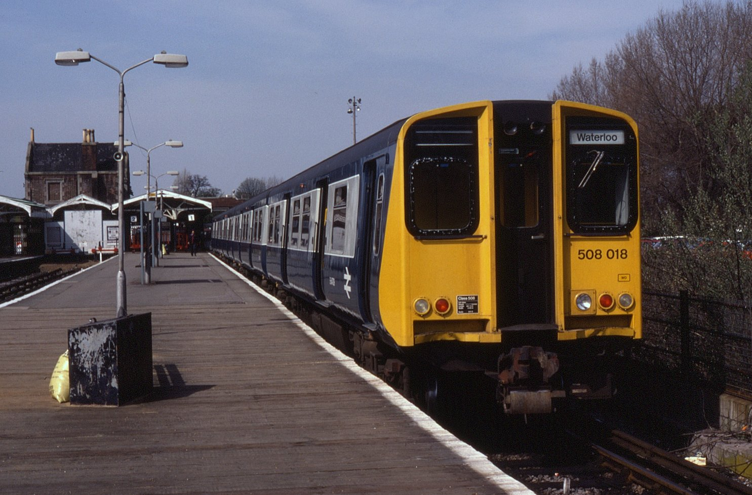 Following trials with the 2 and 4 car PEP units on the South Western division of the Southern Region, these 4-car sliding door units were delivered from 1979. Replacing the older 4SUB and EPB slam door stock, they didn't hang around for long. Being non-standard with other Southern stock within a few years they were transferred to Merseyside to work along side the class 507s. Taken on 21 April 1984, unit 508.108 is seen at Hampton Court ready to work the 15:14 departure to London Waterloo.